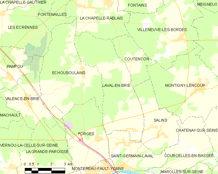 Map of French municipality Laval-en-Brie